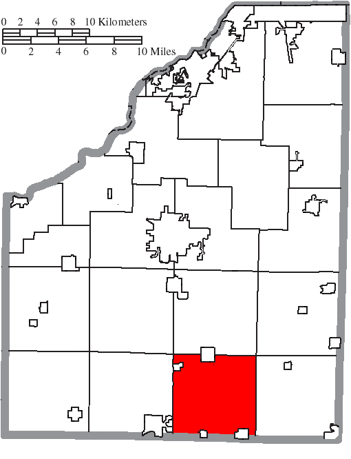 Map of the municipal and township boundaries of Wood County, Ohio, United States, as of the 2000 census, with the location of Bloom Township highlighted. Township borders are shown only in unincorporated areas in order to differentiate incorporated and unincorporated areas more clearly.